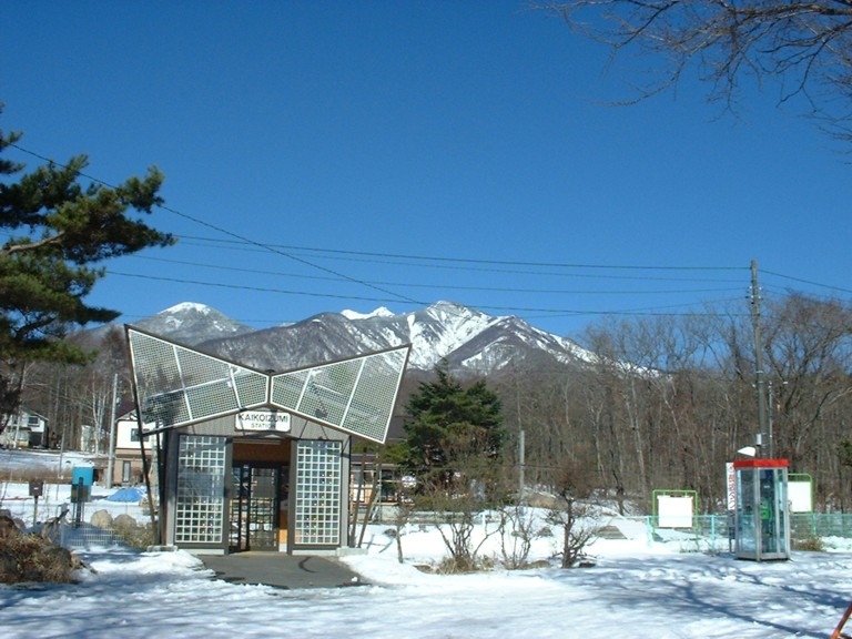 Kai-Koizumi Station in Hokuto, Yamanashi Prefecture, Japan